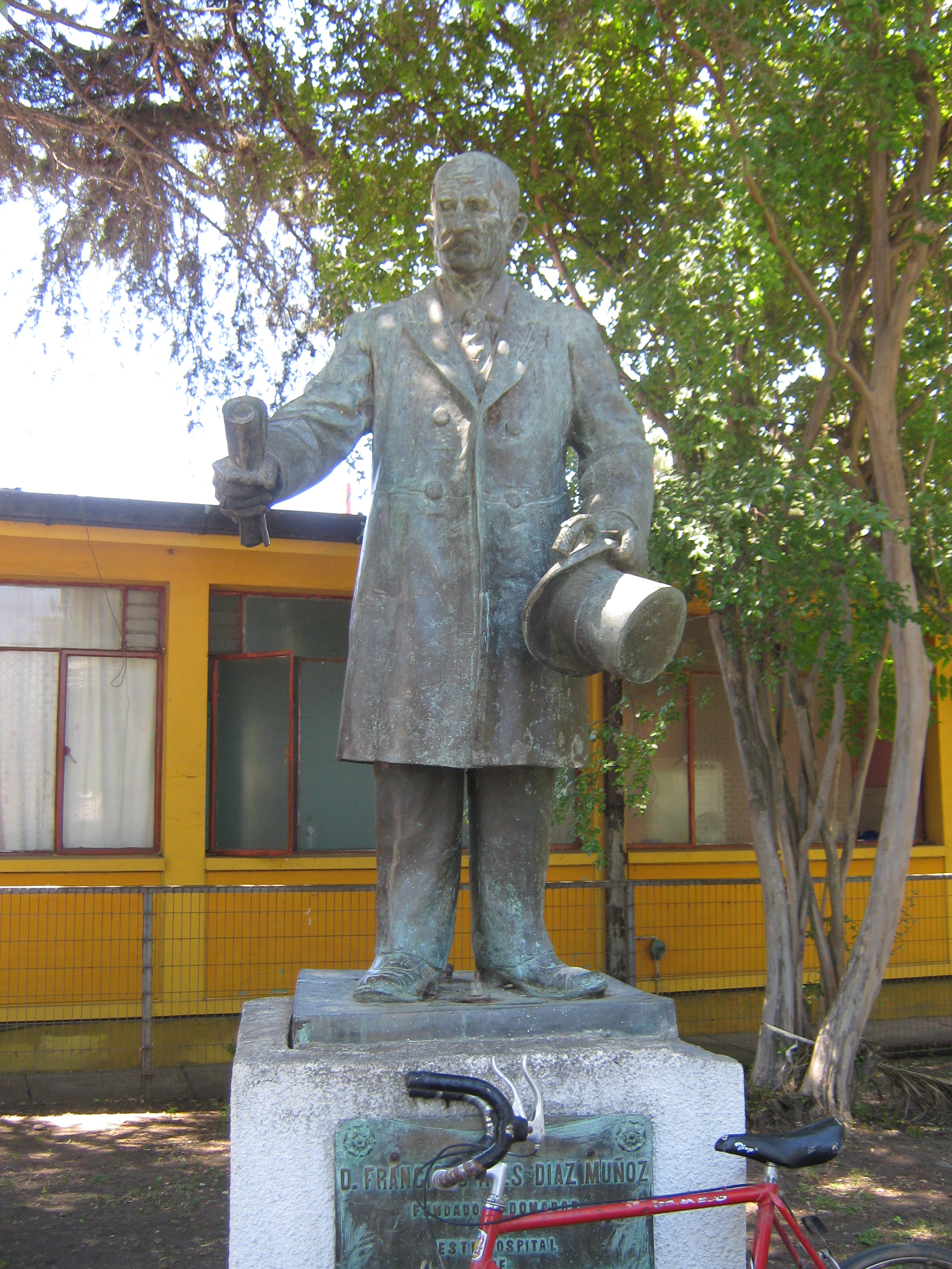 Monument Francisco Díaz Muñoz at Coinco's hospital